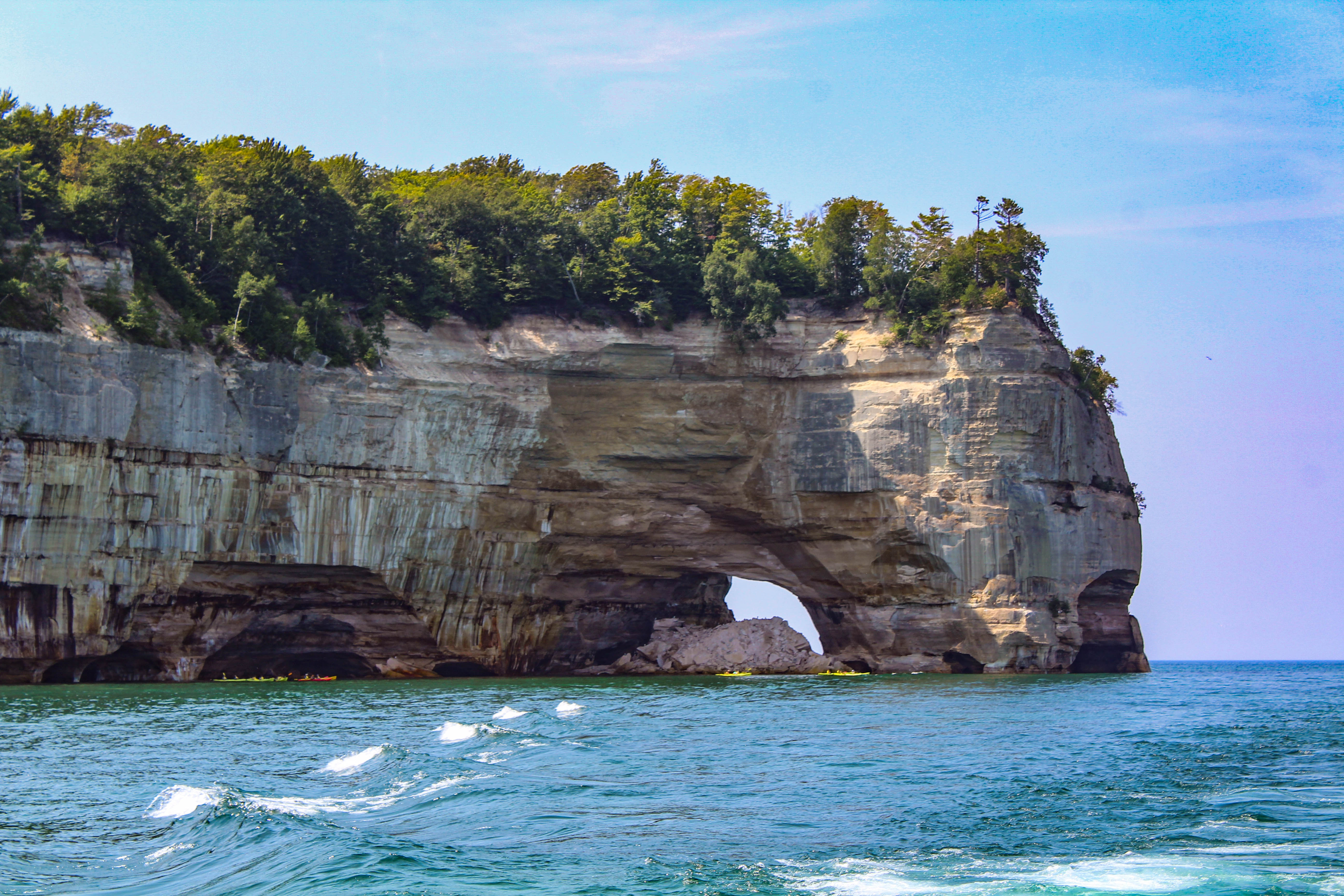 Kayakers by a tall cliff with a tunnel Pictured Rocks National Lakeshore in Michigan Keywords: Pictured Rocks National Lakeshore; Pictured Rocks; PIRO; Michigan; Lake Superior; lakes; boating; paddling; recreation